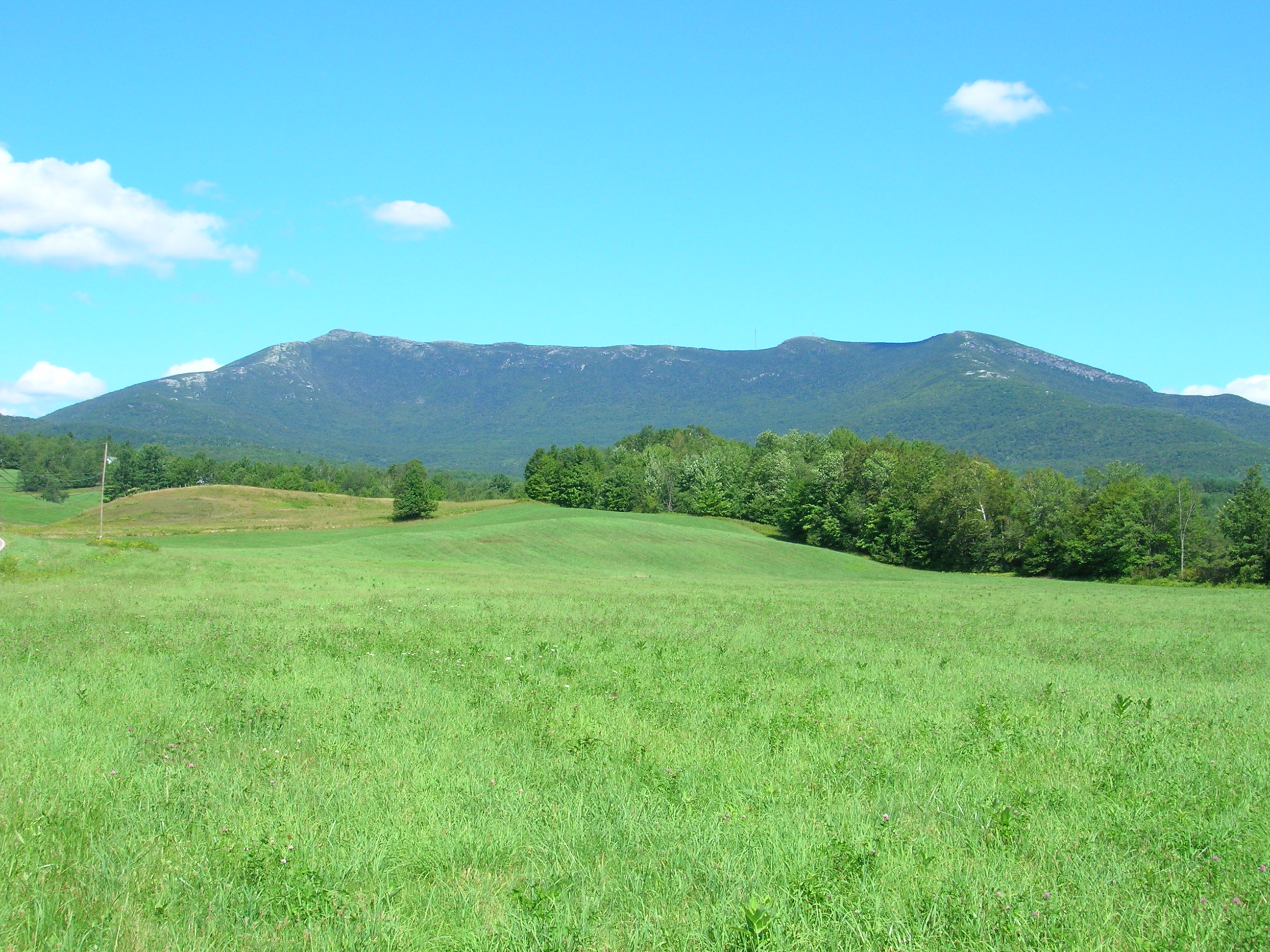 Mt. Mansfield in Underhill, Vermont ~ Jul 2006